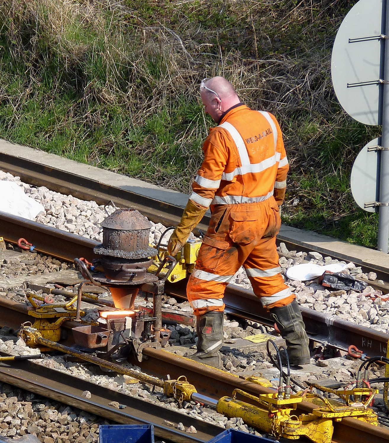 Welding rail joints